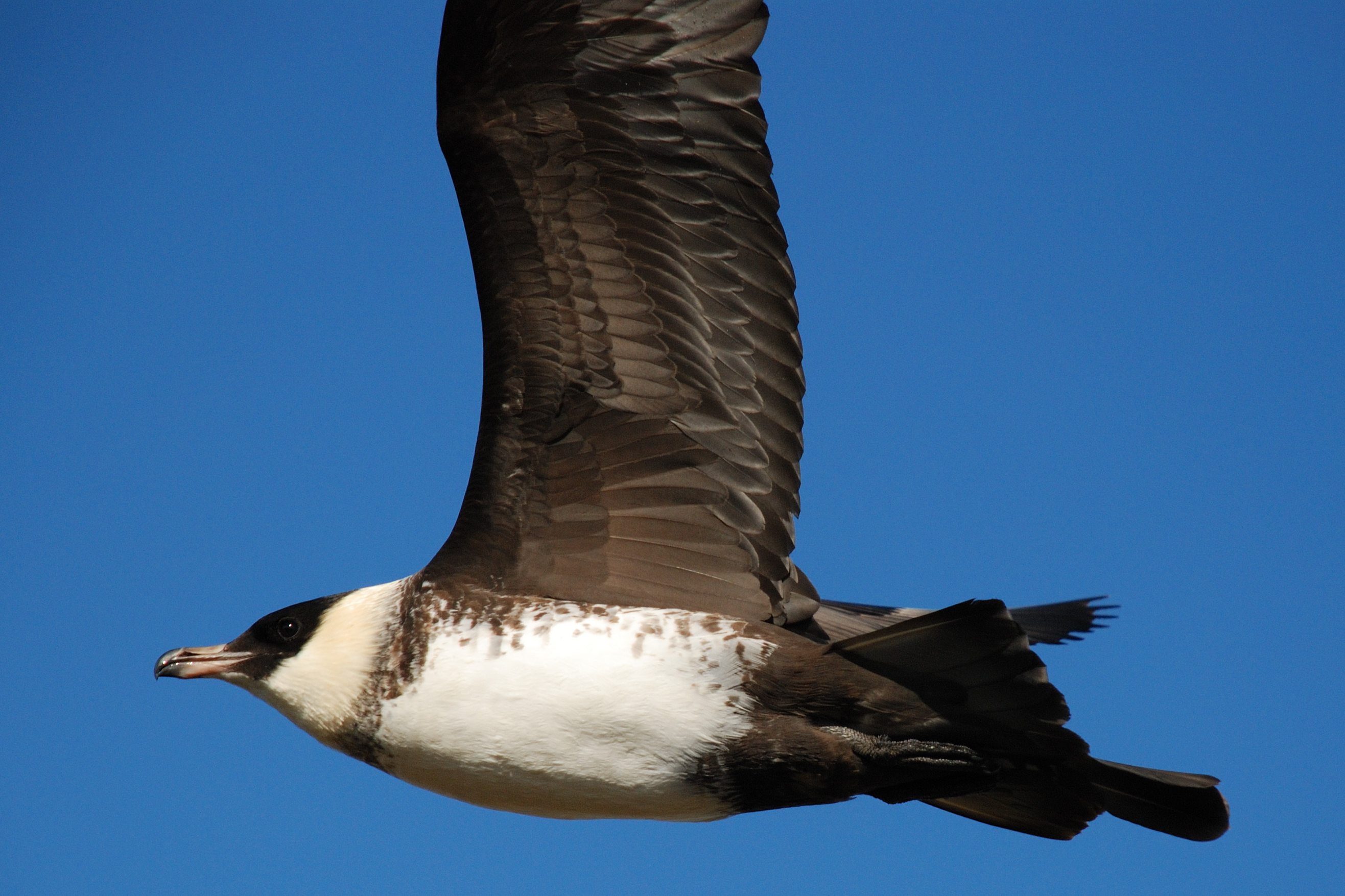 Pomarine Skua Stercorarius pomarinus, adult on breeding grounds, Barrow, Alaska.